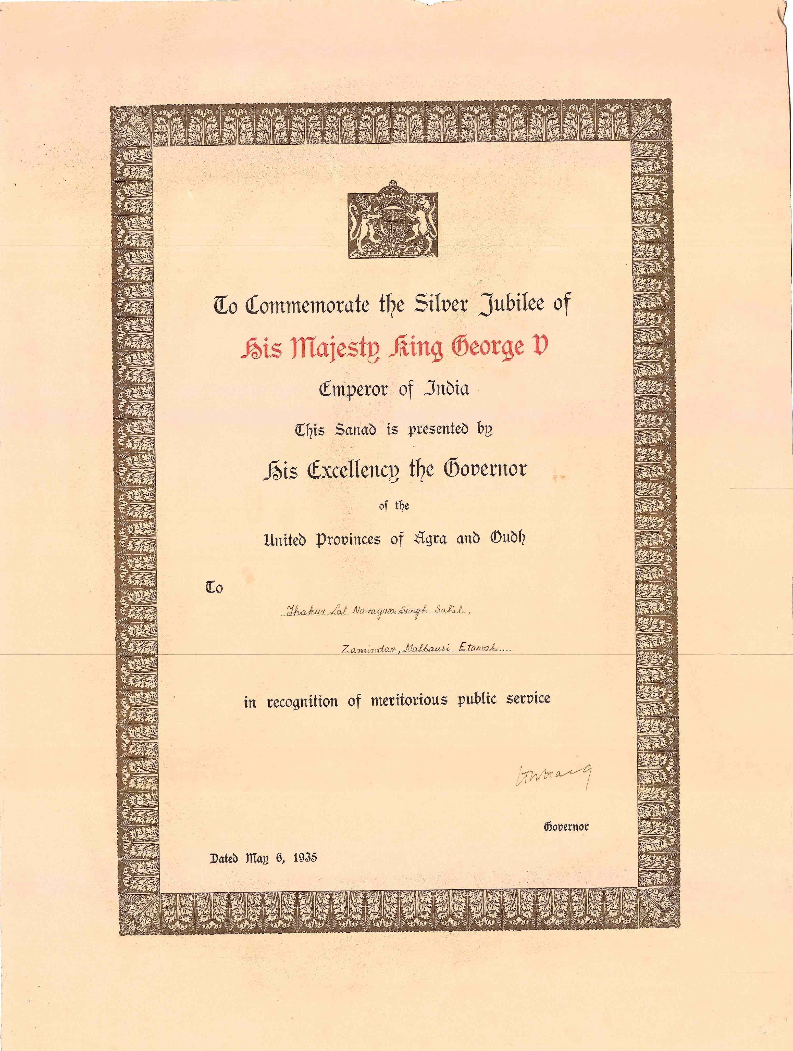 Certificate given to Lal Narain Singh, Sahar (Malhausi)